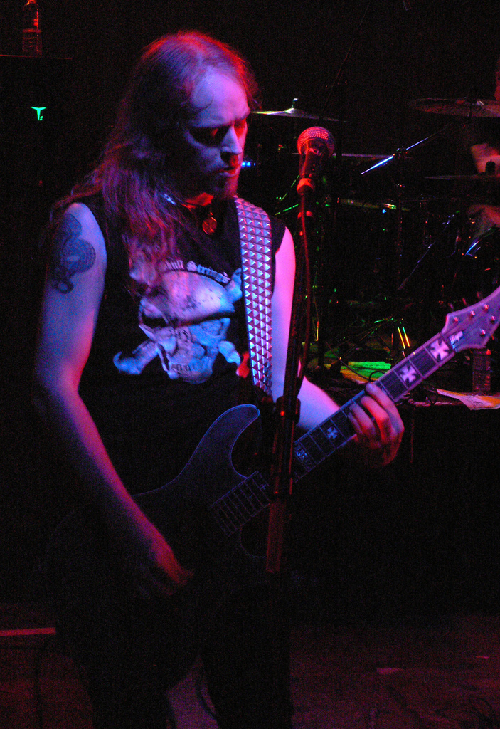 This is Anders Nystrom playing with the band Katatonia on 4 September 2007 at Jaxx Nightclub in West Springfield, Virginia. I took this picture on my Panasonic Lumix DMC-LX1 digital camera. OzzyRules 17:24, 13 November 2007 (UTC)